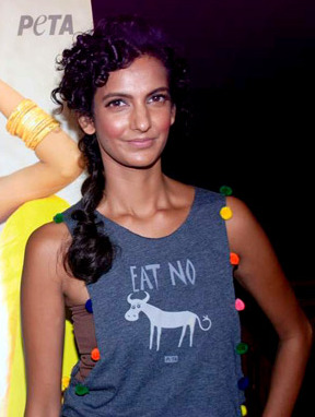 Poorna Jagannathan unveils PETA Ad